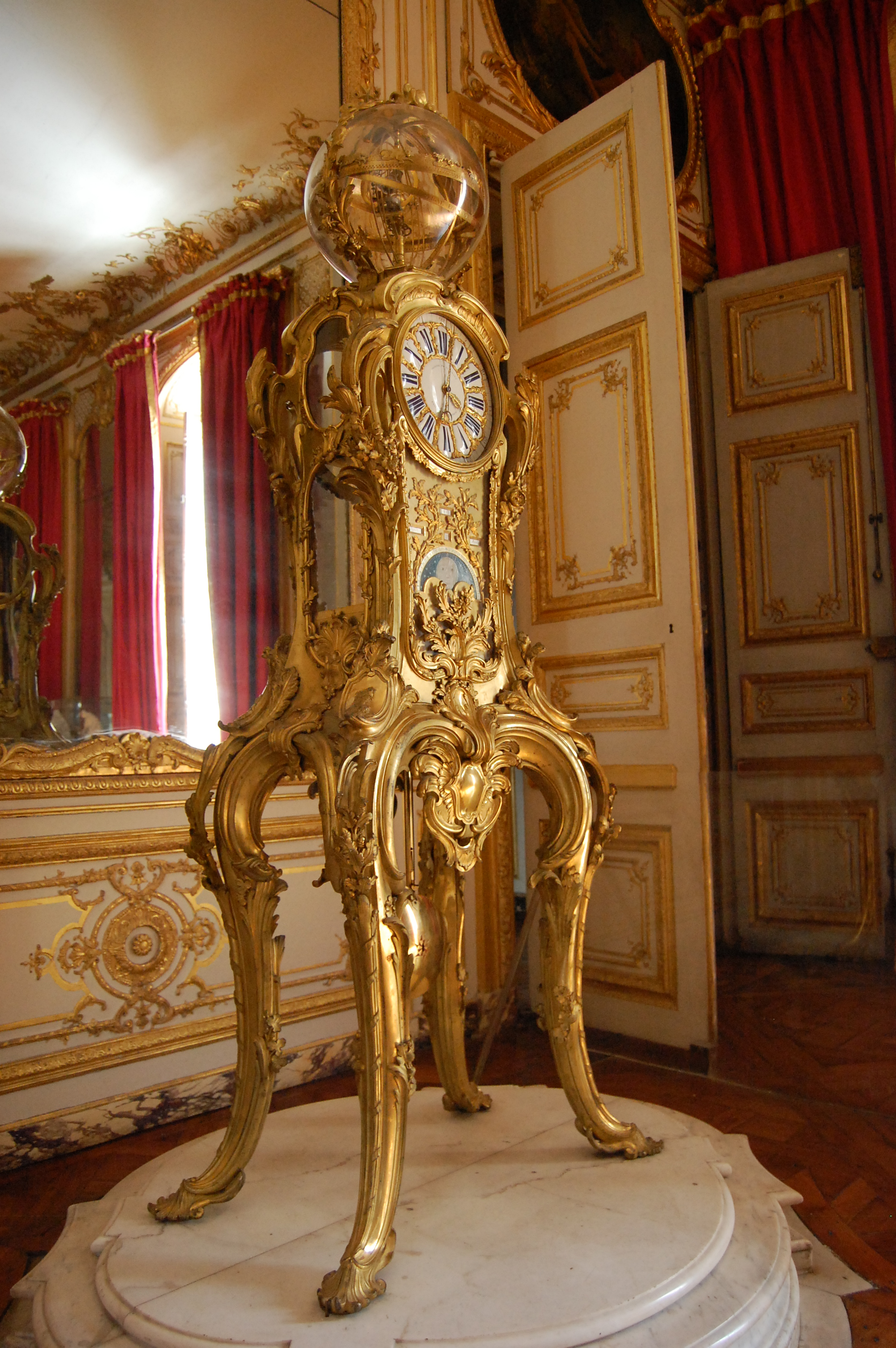 Astrological clock by Passemant